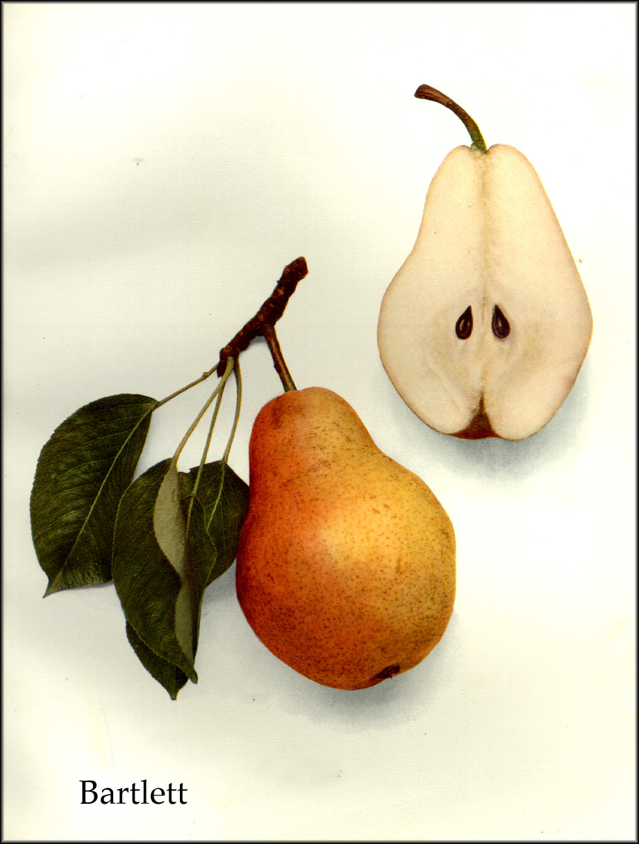 A colour plate from The Pears of New York (1921) depicting the Bartlett pear cultivar.